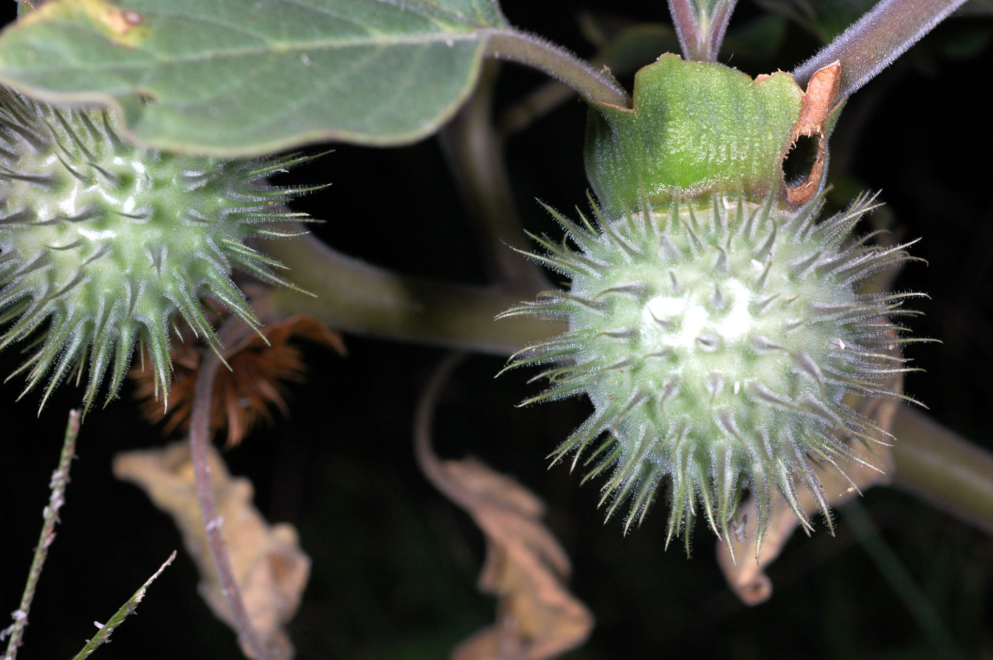 Downy Thorn Apple (Datura wrightii) Seed Pods